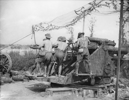 Gunners of the Australian Siege Artillery Brigade ramming home a shell in a 9.2 inch breeech loading howitzer on a hot summer's day. The batteries of this brigade were among those that supported the I Anzac Corps at Pozieres.